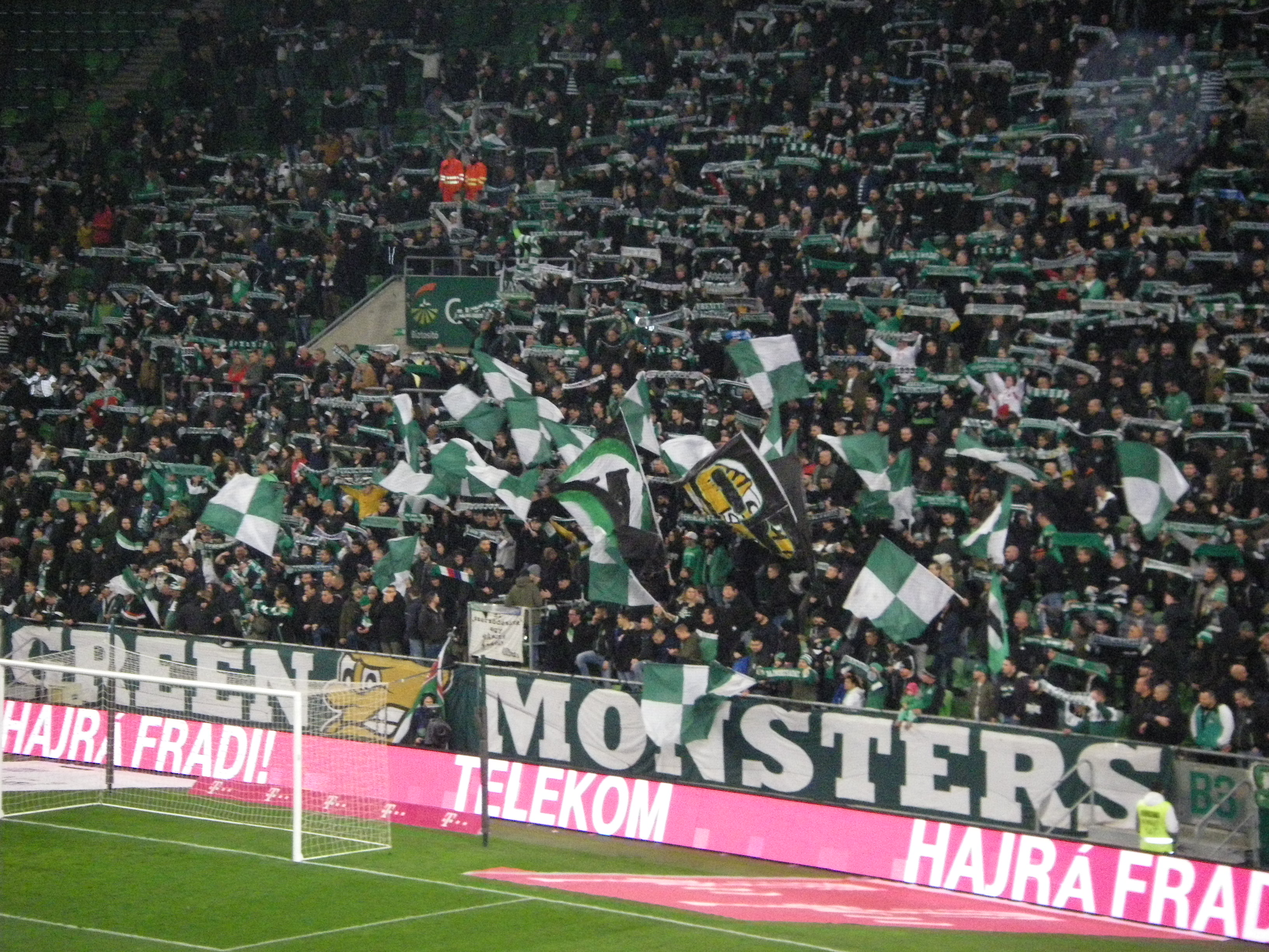 Standing terrace of Fradis fanbase at the home match versus Zalaegerszegi TE on November 24, 2019